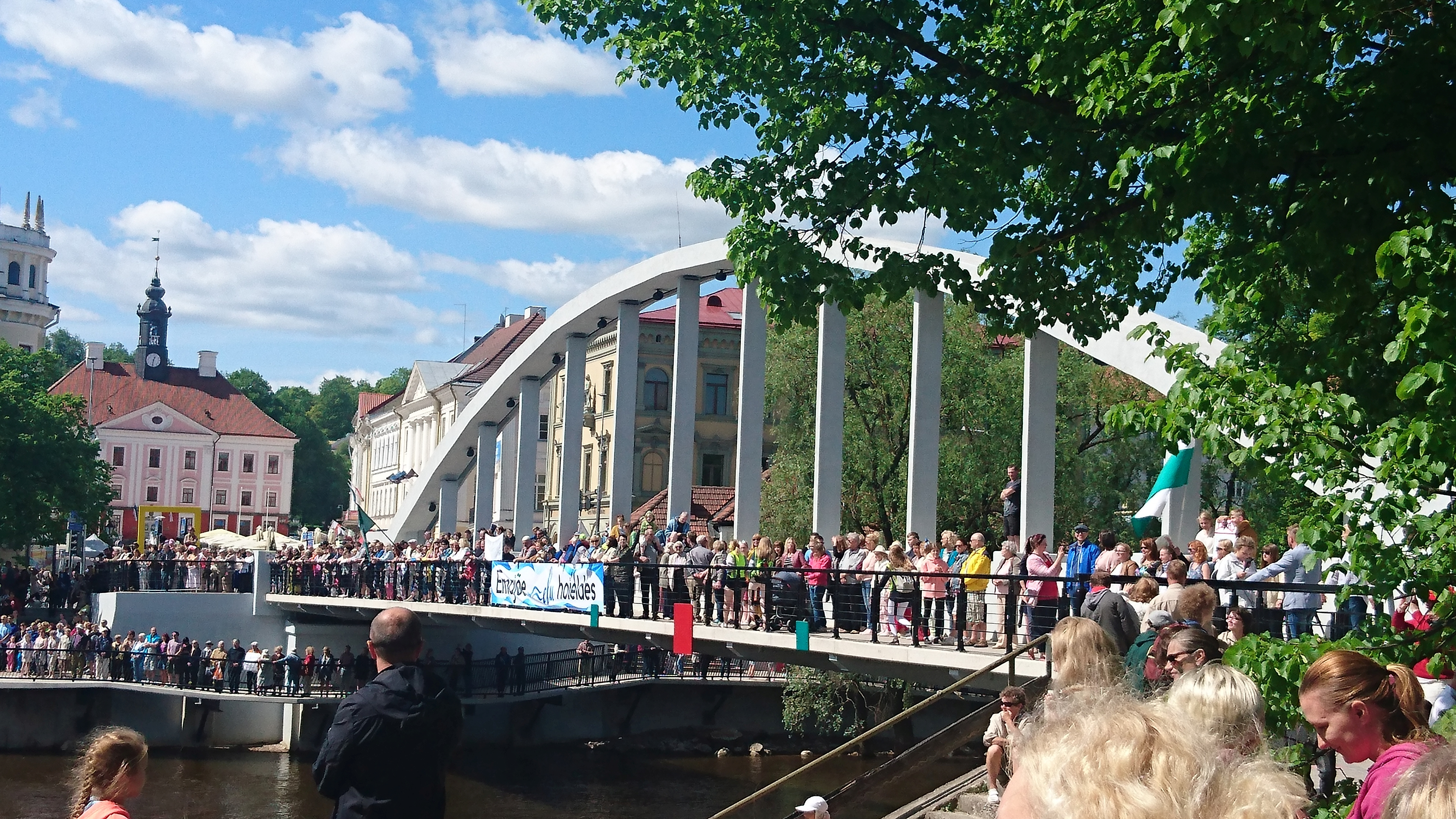 Demonstration against a planned paper factory in Tartu, 19 May 2018.